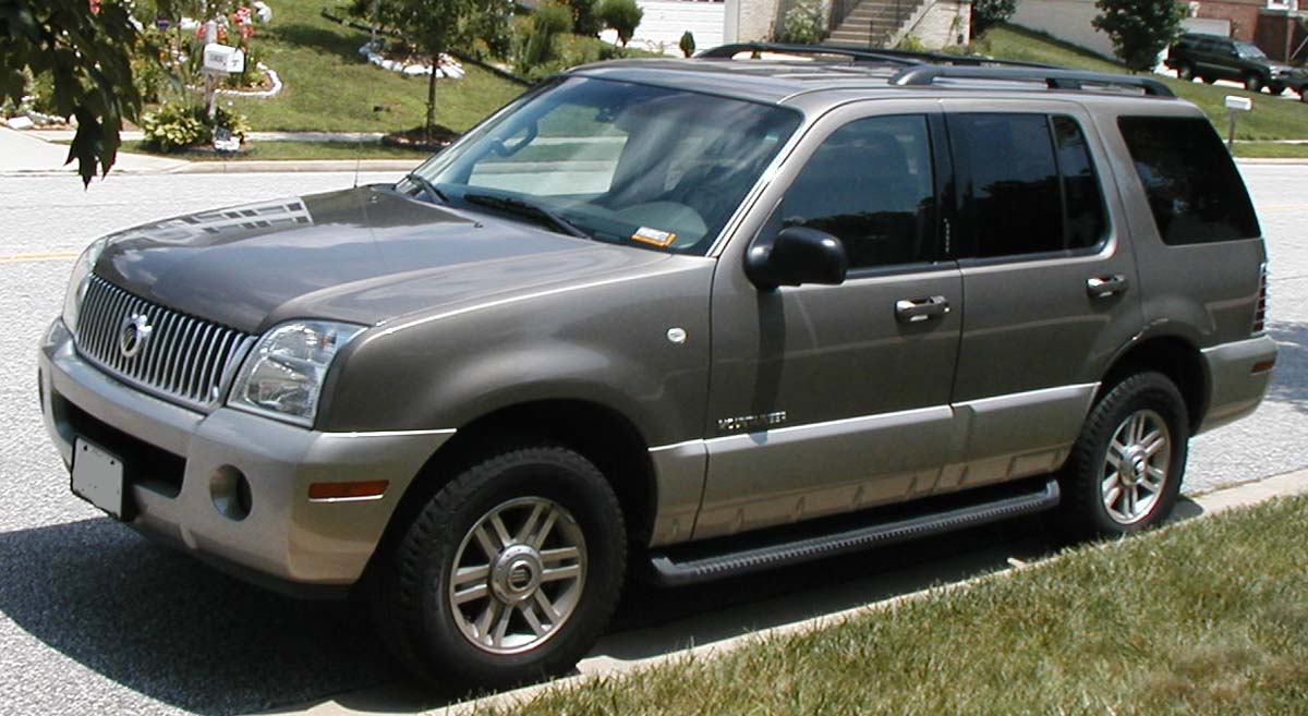 2002-2005 Mercury Mountaineer photographed in USA.